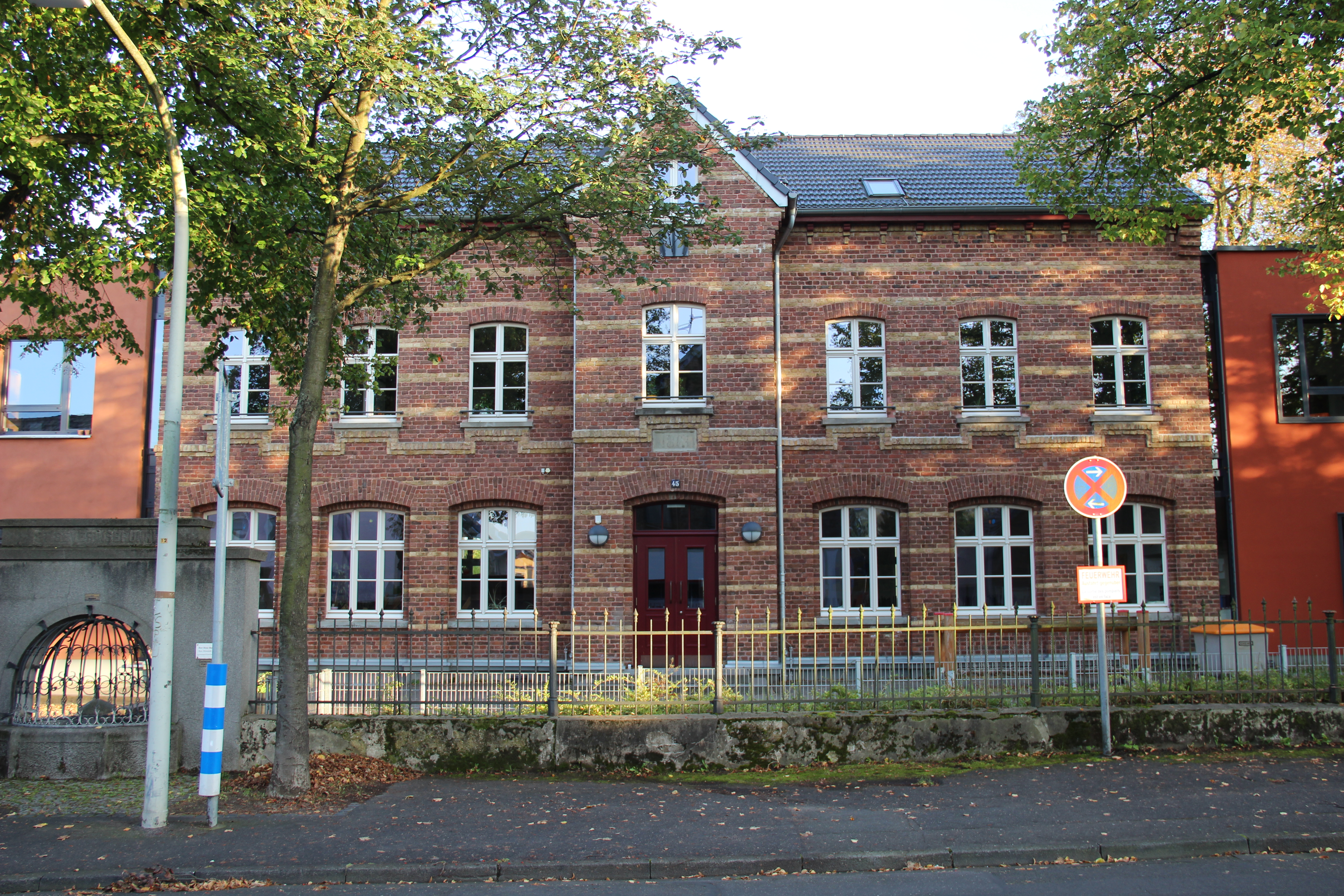 Denkmalgeschütztes Haus, École de Gaulle-Adenauer in Mehlem, Bonn